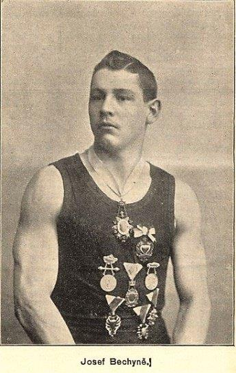 Český vzpěrač a řecko-římský zápasník Josef Bechyně